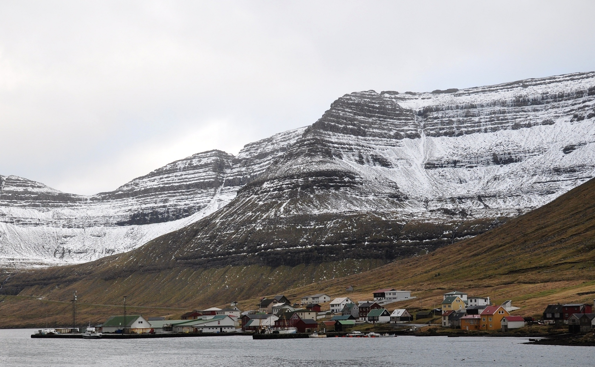 View of Norðdepil (on Borðoy, Faroe Islands), seen from the NE (from Hvannasund on Viðoy).